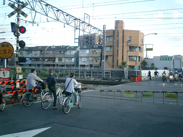 Railway crossing at Hanaten Osaka